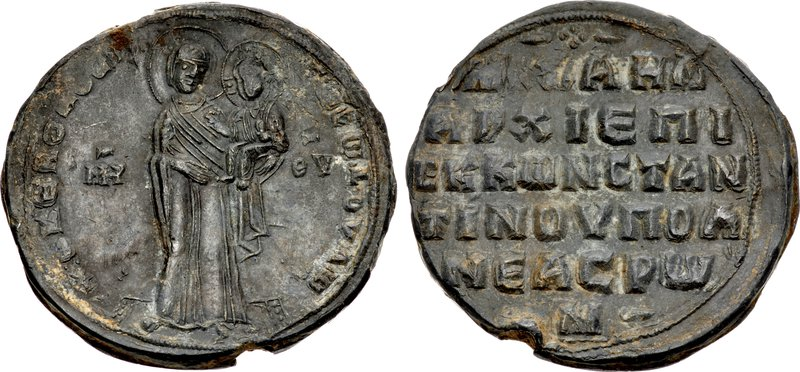 Lead seal of the Patriarch of Constantinople Michael Keroularios (1043-1058).